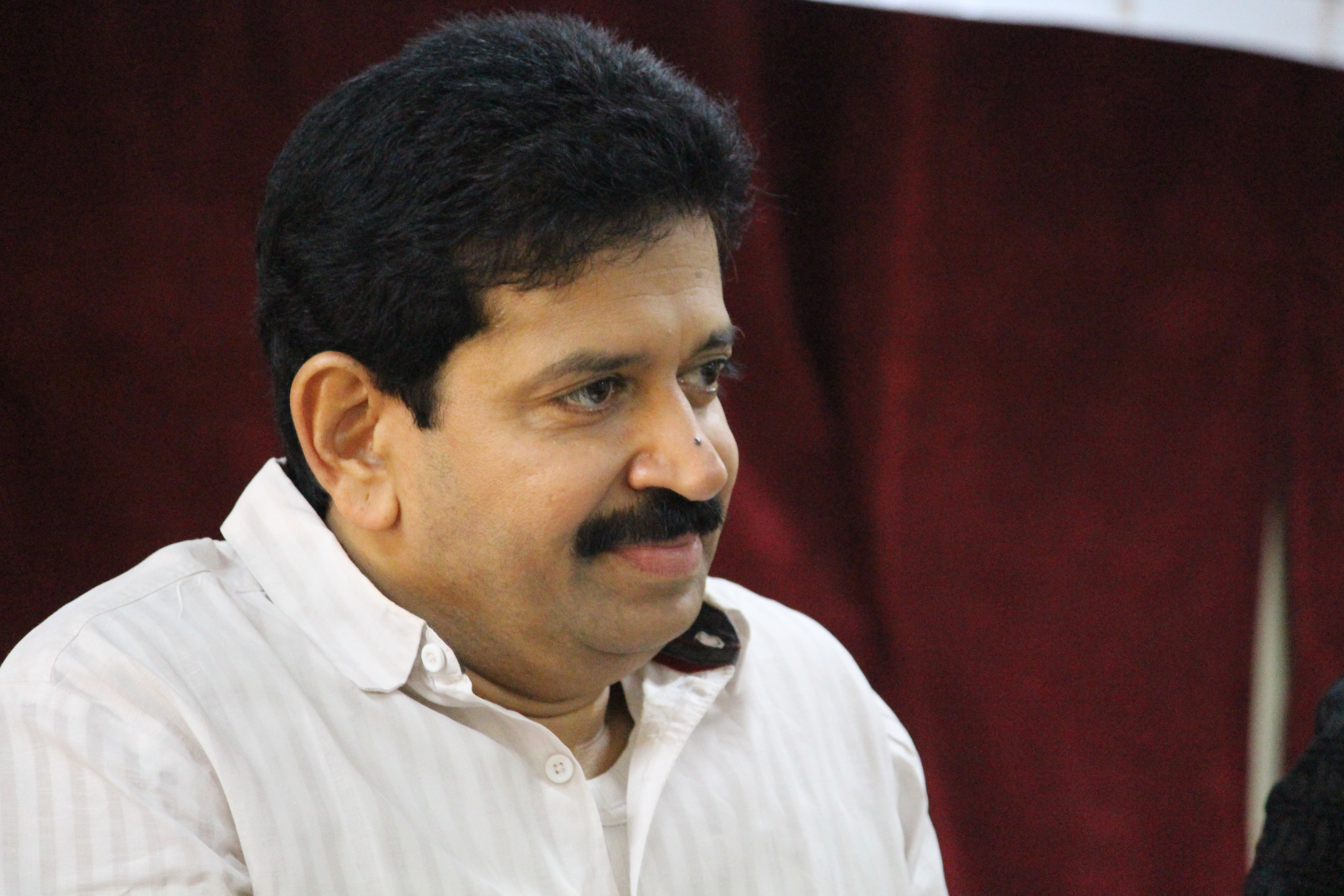 Gopinath Muthukad is a magician, escapologist, life coach, and motivational speaker from Kerala, India. He employs magic as a medium to convey his messages to public. He founded the first magic academy of Asia at Thiruvananthapuram.